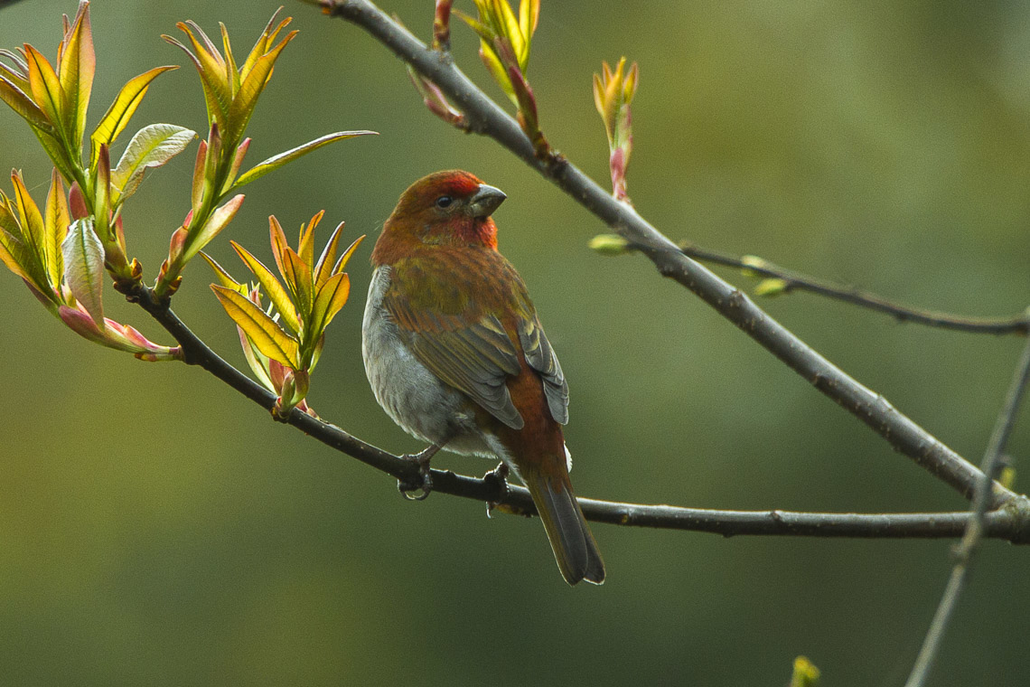 Crimson-browed Finch - Bhutan_S4E8757